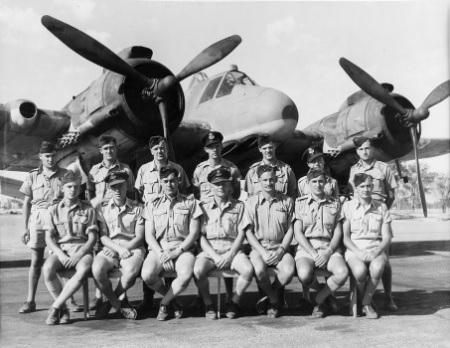 Australian War Memorial (AWM) catalog number P03594.015 Graduates of No 12 Course at No. 5 Operational Training Unit RAAF